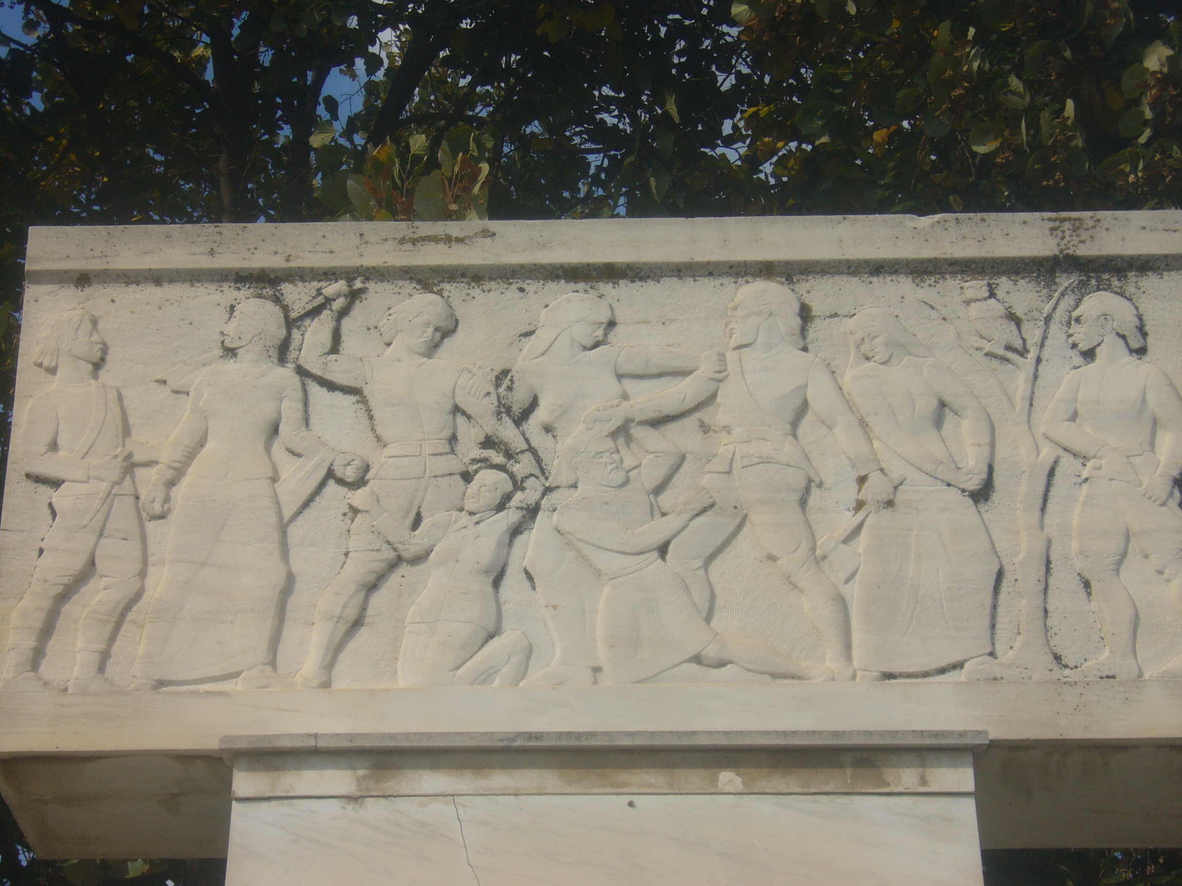 Monument in Aetos/Aitos, Florina prefecture, Greece.